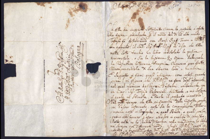 Letter by Christian Joseph Lidarti to Giovanni Battista Martini, dated July 11th, 1762, now in the Library of Museo Internazionale e Biblioteca della Musica, Bologna, Italy